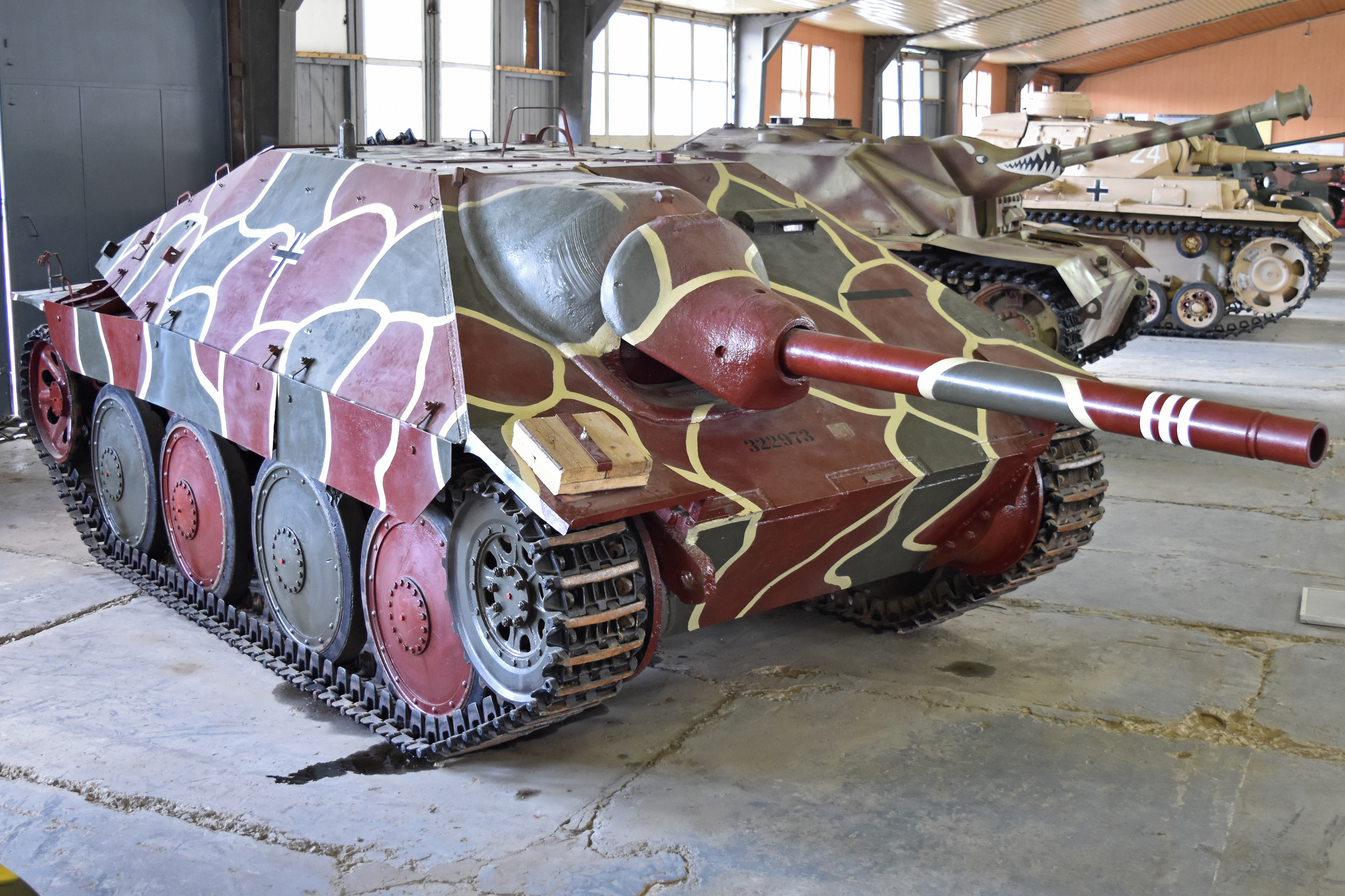 German WW2 Light Tank Destroyer Official designation:- Sd.Kfz 138/2 Jagdpanzer 38(t) Built:- 1944 to 1945 Total production:- 2,827 Main Armament:- 75mm Pak 39 L/48 gun The Hetzer was one of the most common German Tank Destroyers at the end of WW2. It was built in large numbers, was mechanically reliable and was easy to conceal because of its small size. This example is on display in what is best known as Hall 5 of the Kubinka Tank Museum, although its official title is now Pavilion 5 in Area 2 of the Park Patriot museum. Kubinka, Moscow Oblast, Russia. 24th August 2017.